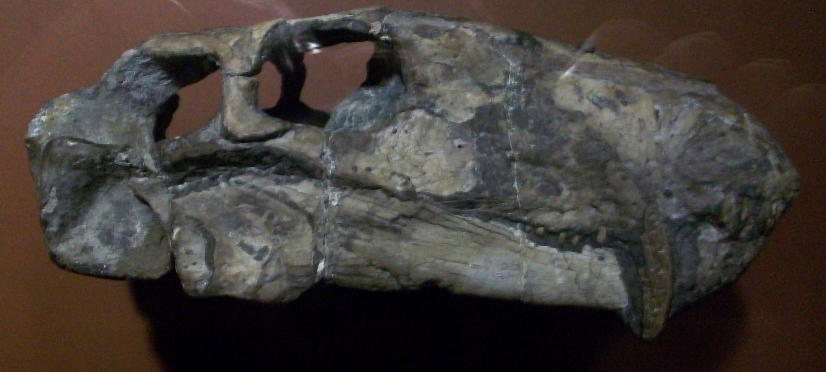 Skull of Cyonosaurus longiceps in the Field Museum of Natural History.